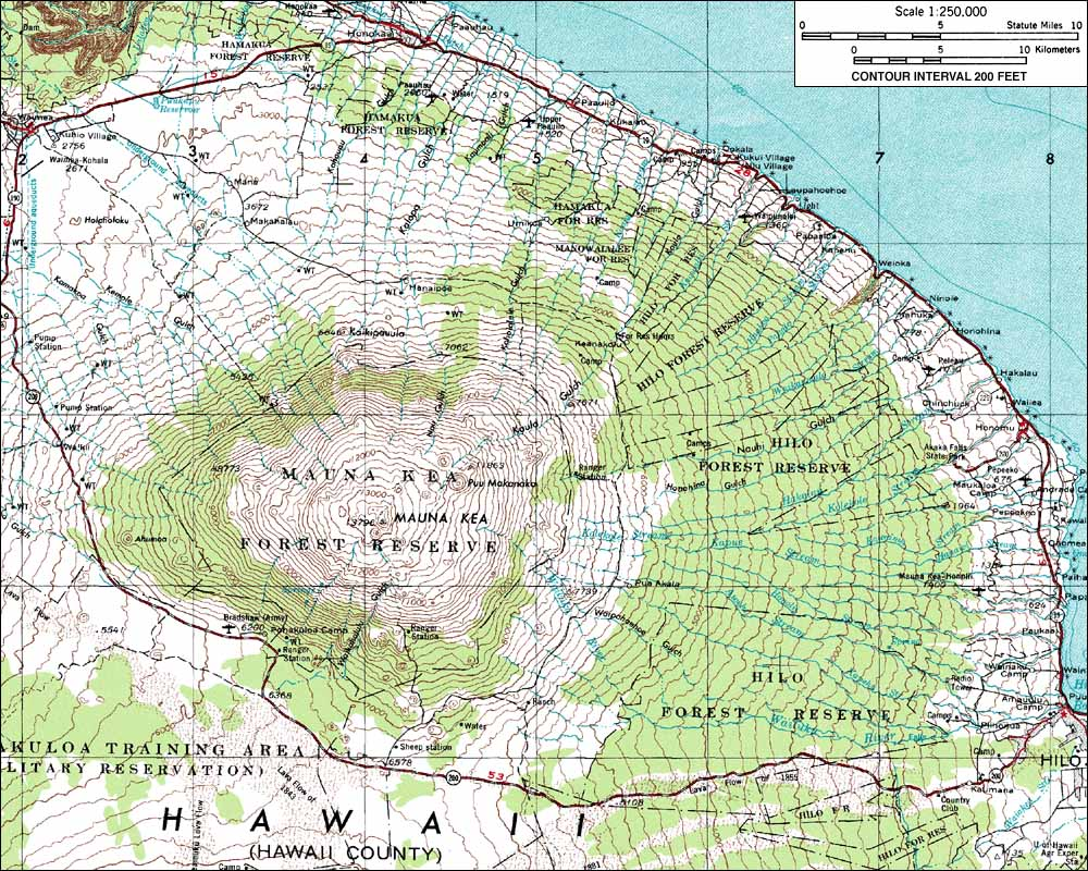 Topographic map of Mauna Kea (1:250,000 scale)